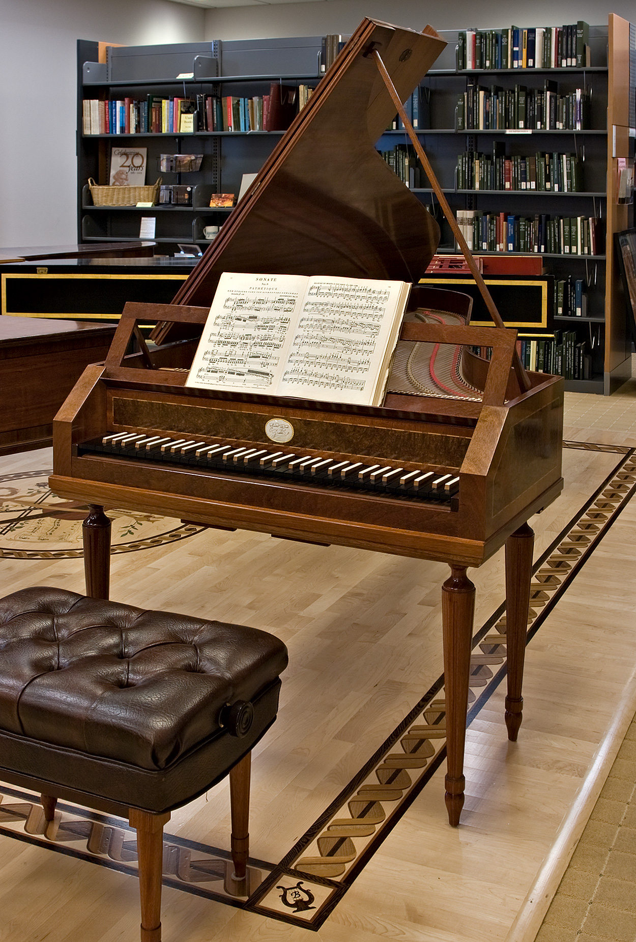 A reproduction of a 1795 Dulcken fortepiano at the Ira F. Brilliant Center for Beethoven Studies in San Jose, California. The original is in the Smithsonian Institute.